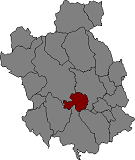 Location of Sant Quirze del Vallès in Vallès Occidental